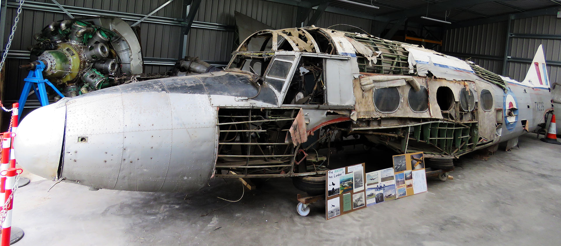 Avro Anson Mk.C19 No.TX266 on display whilst under renovation at Montrose Air Station Heritage Centre